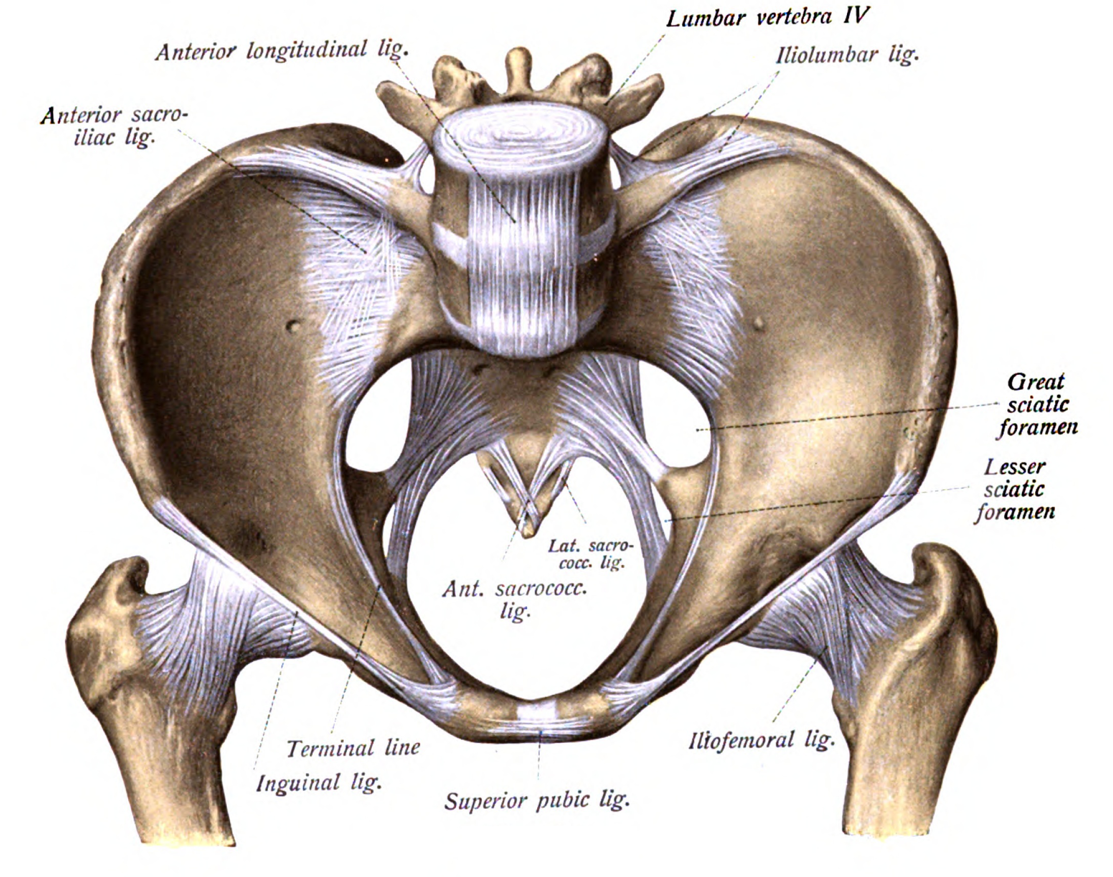 An anatomical illustration from the 1909 American edition of Sobotta's Atlas and Text-book of Human Anatomy with English terminology